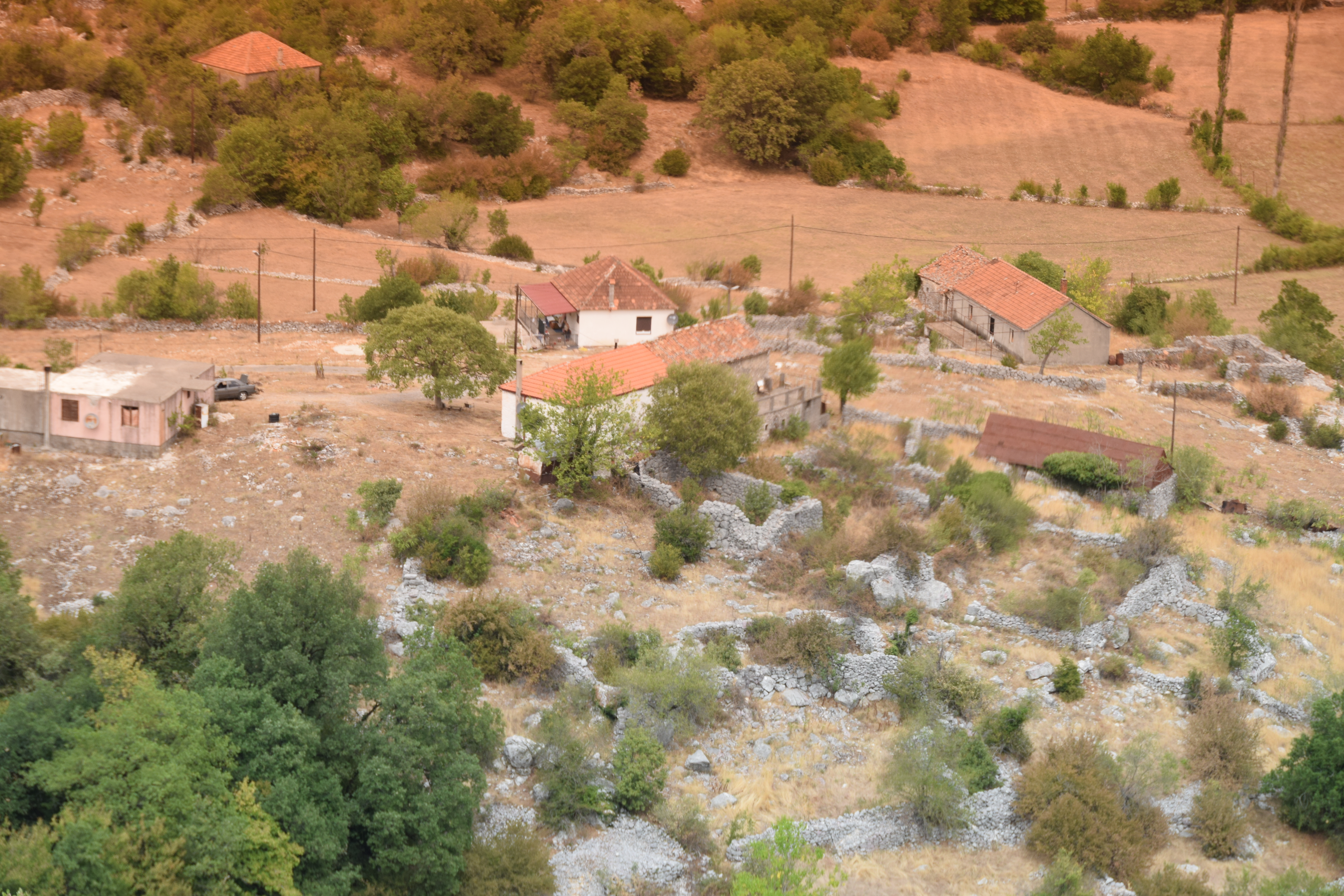 Meteon city of Montenegro